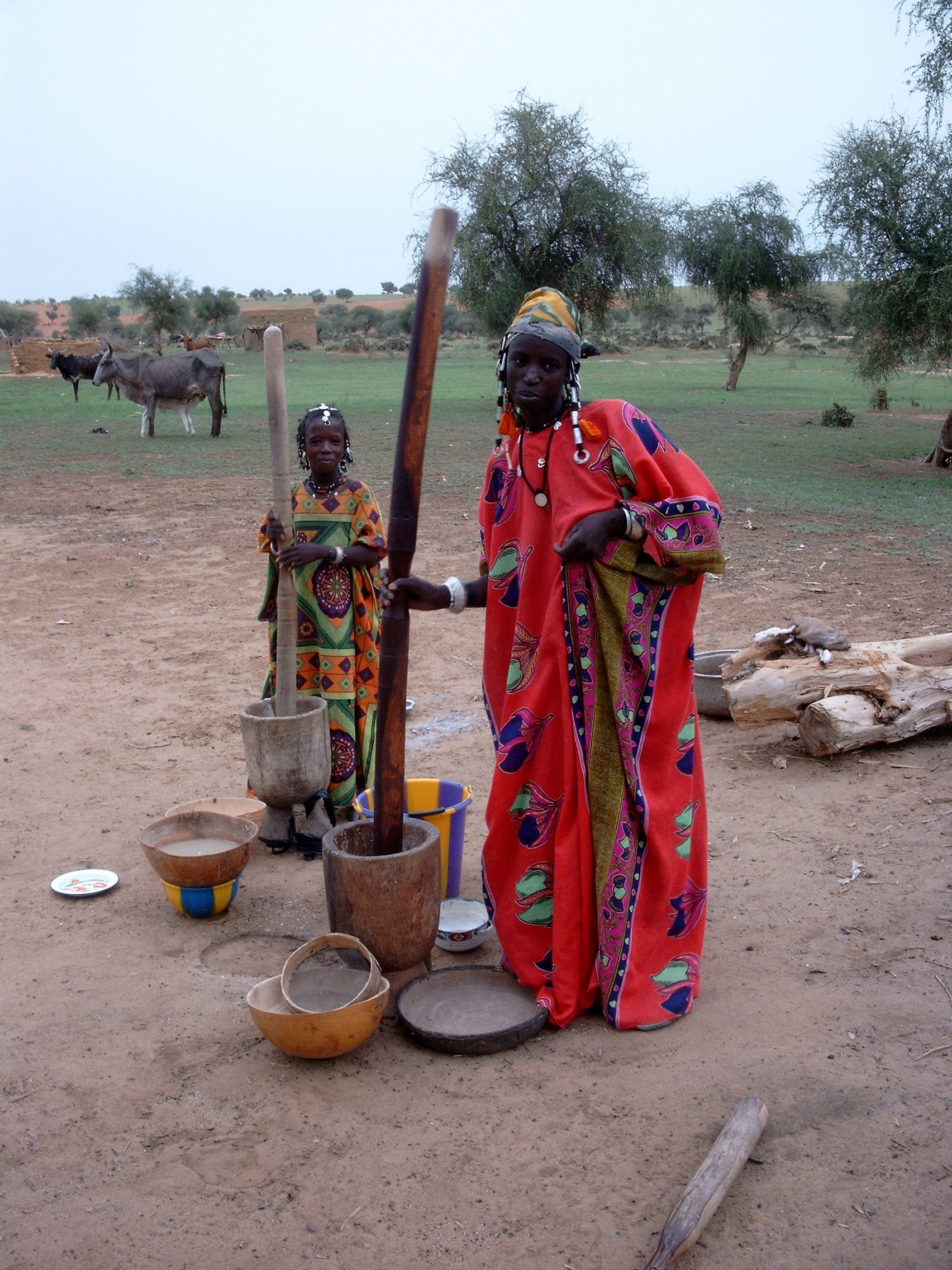 Women pounding millet in Hondo Tchiri near Oursi, Burkina Faso.